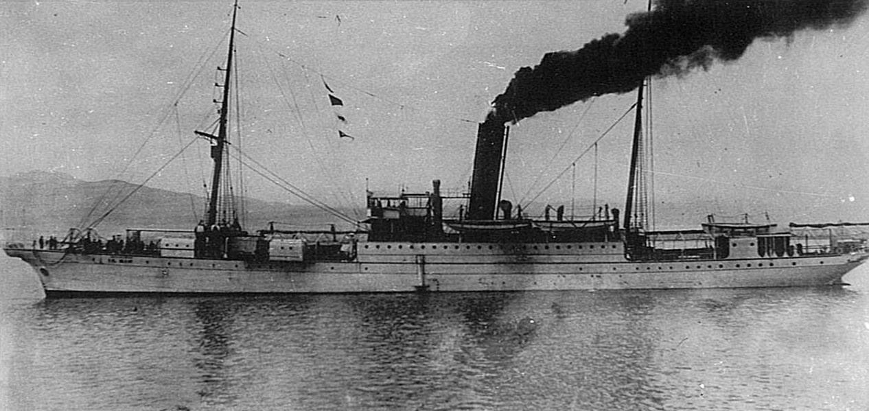 Japanese cable layer Okinawa-Maru.